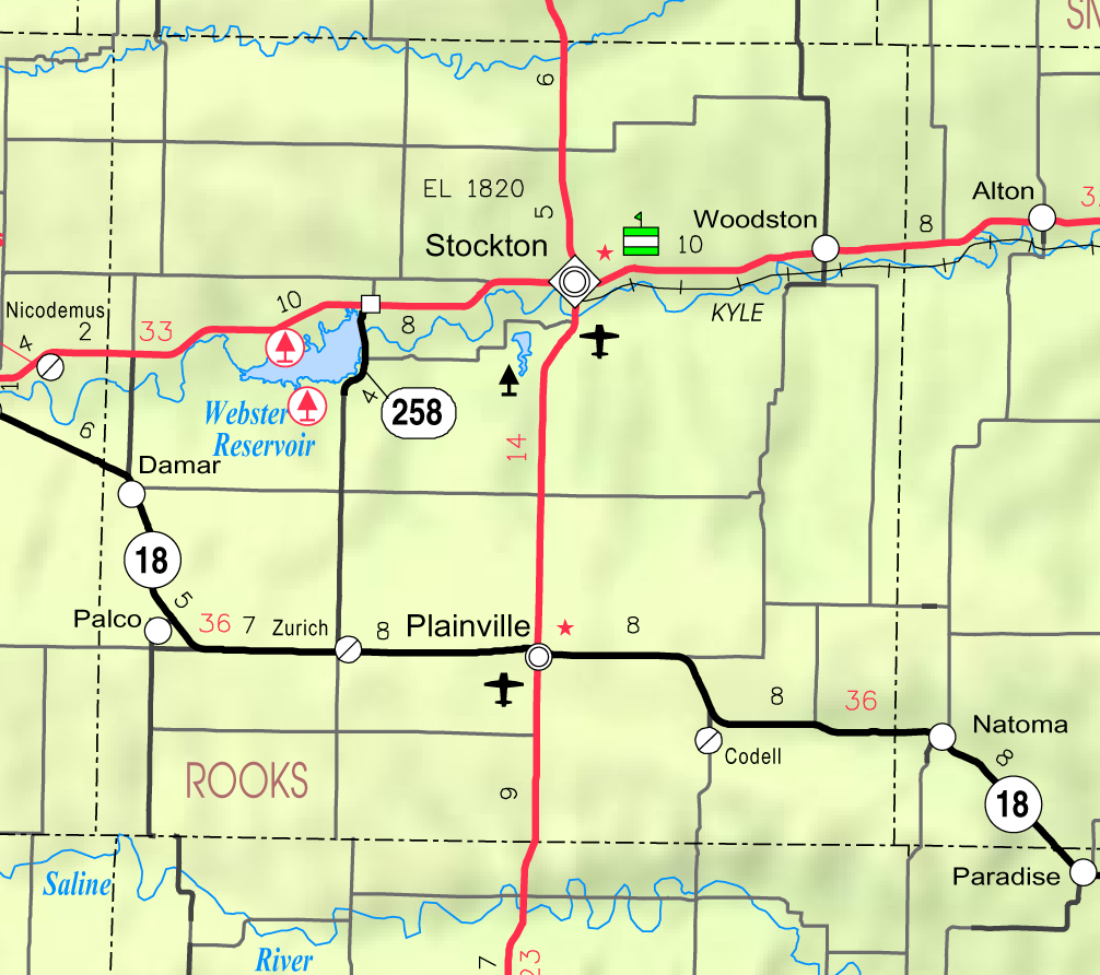 This map of Rooks County, Kansas, USA, is copied at a resolution of 300 pixels/inch from the original PDF file.